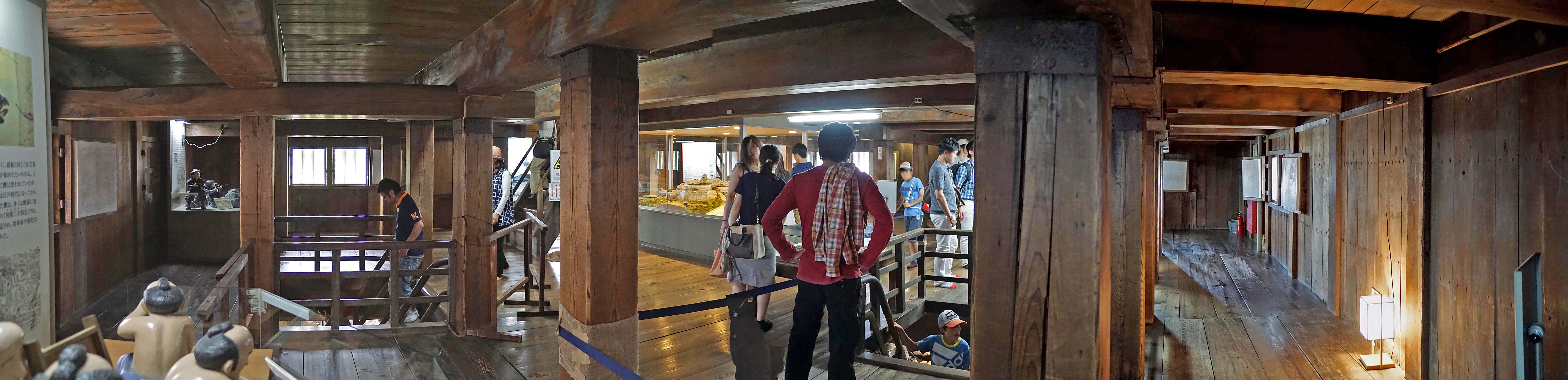 Kochi castle / 高知城